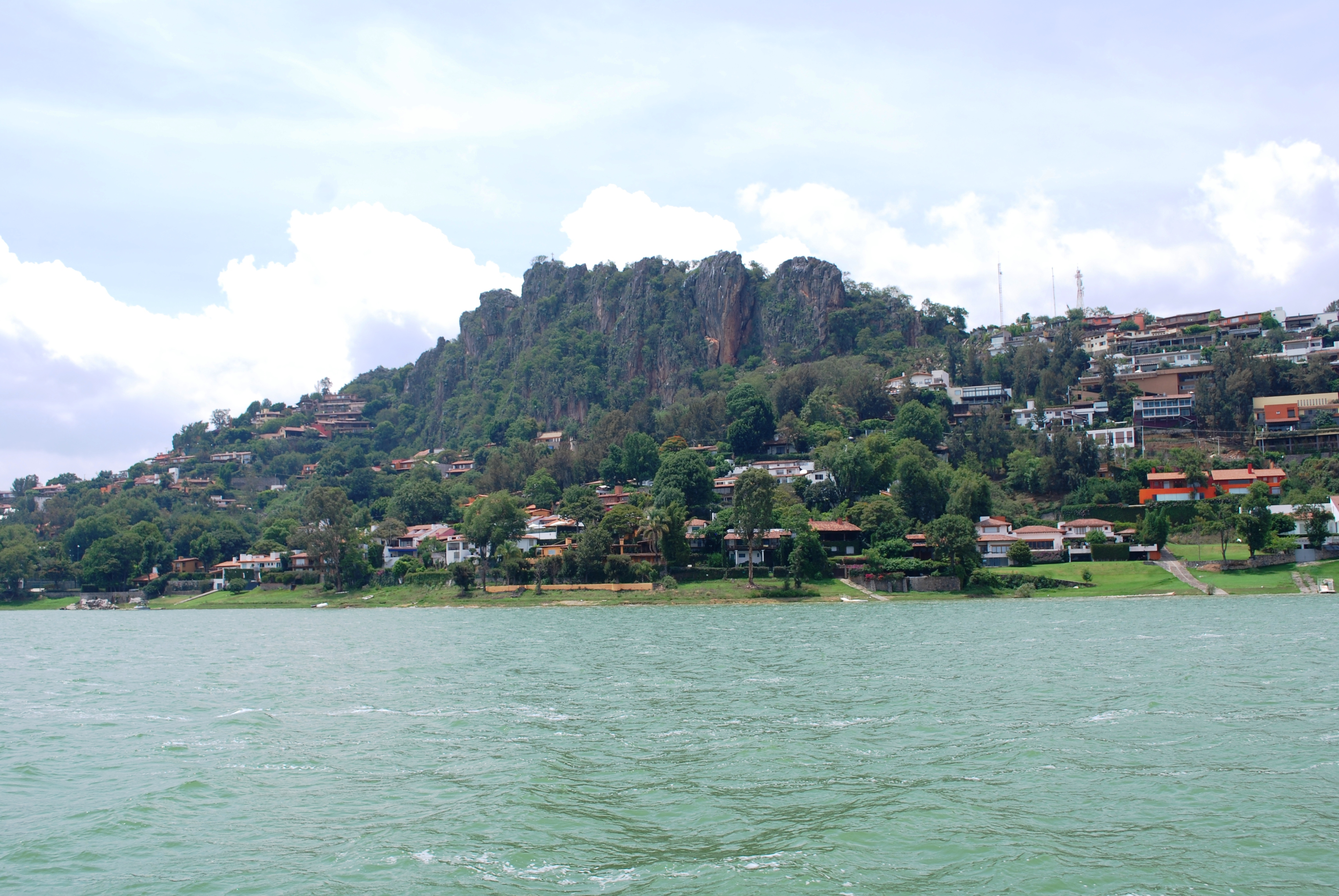 The Peña de Principe Cliff in Valle de Bravo Mexico